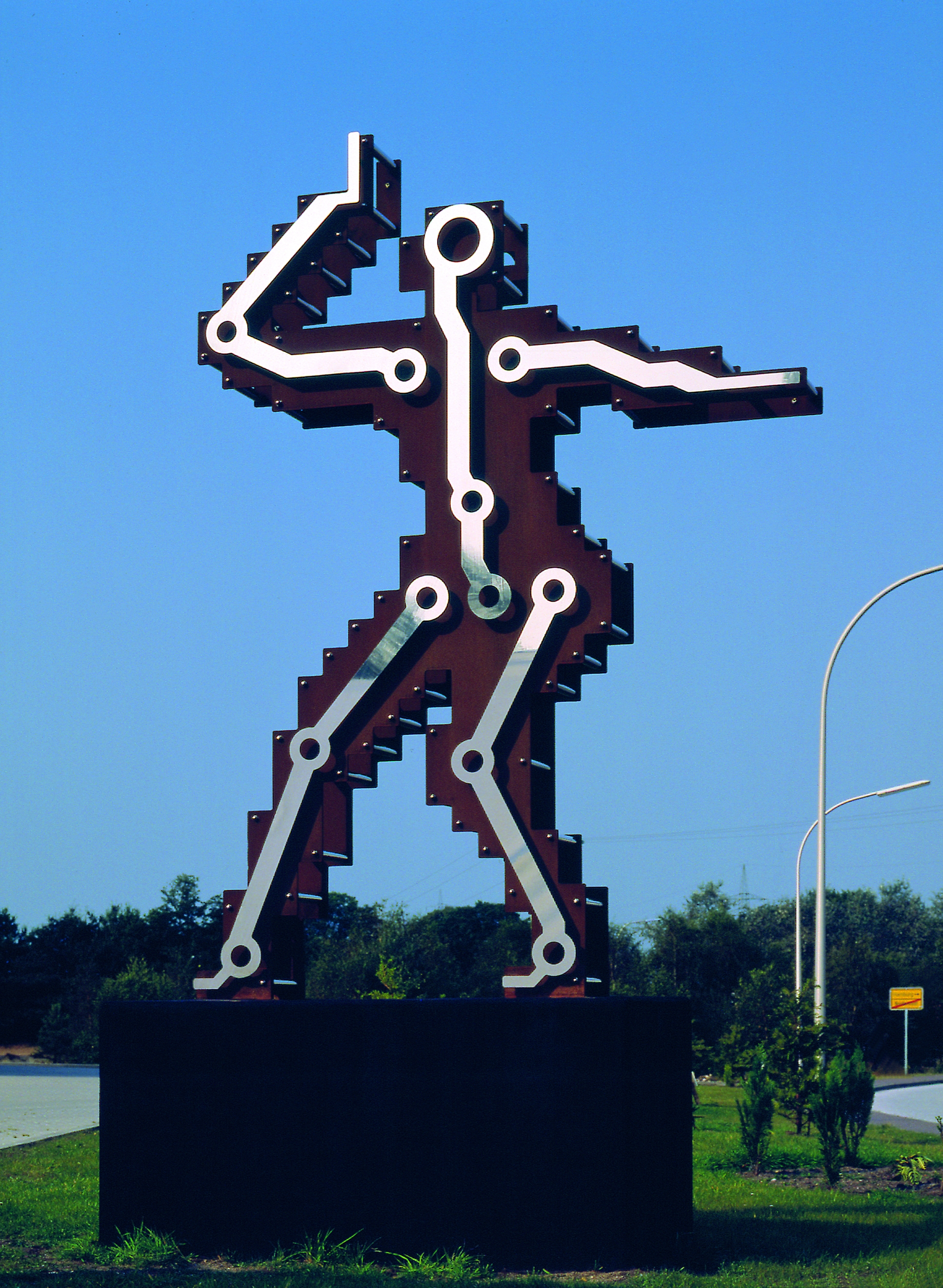 by Petrus Wandrey, 1990 collection ESG Edelmetall-Service GmbH & Co. KG, Rheinstetten Material: cut-out polished stainless steel, cut-out Corten steel Dimensions: 320 x 230 x 45 cm